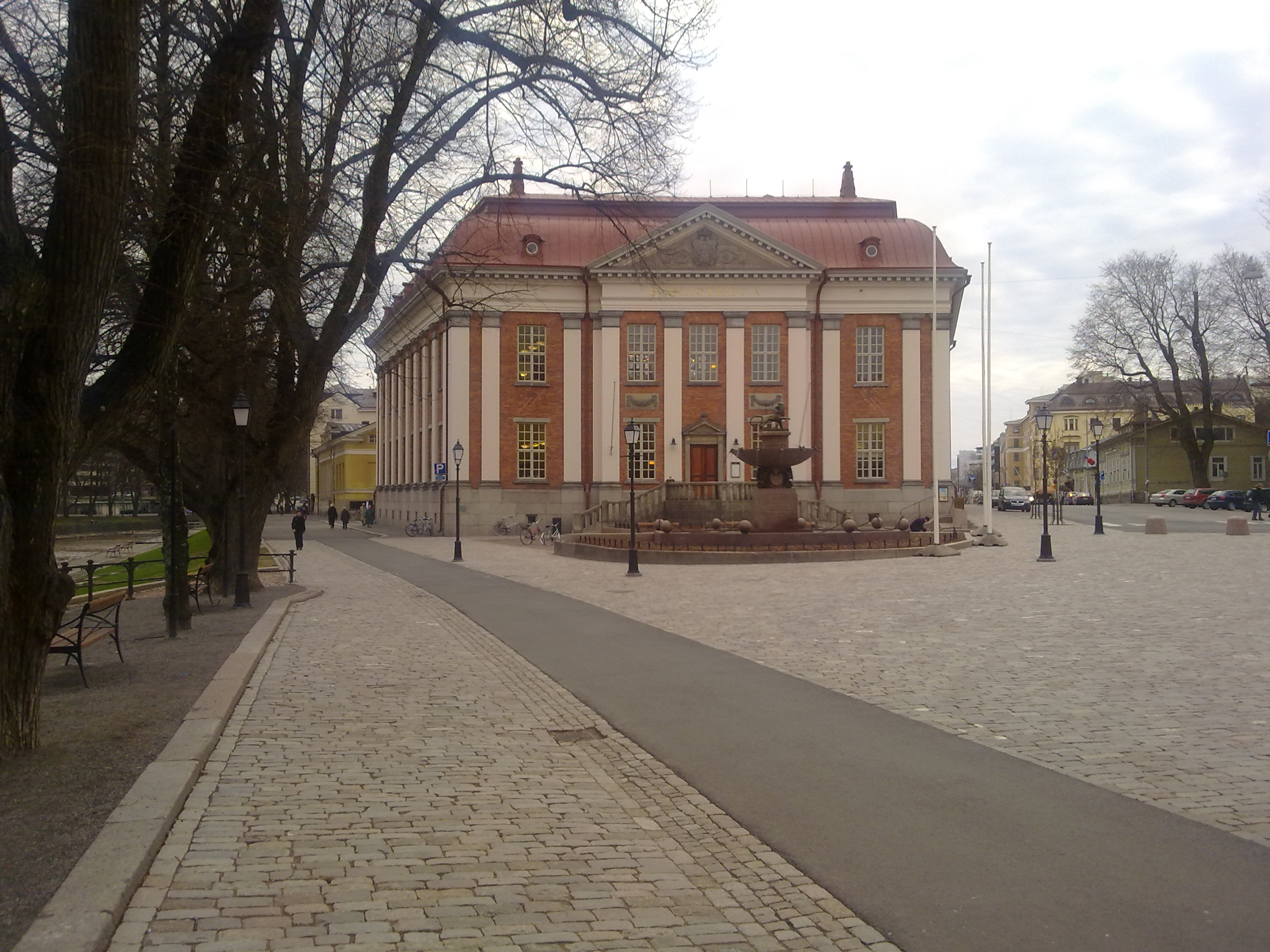 The main library of Turku, Finland and Vähätori-square.